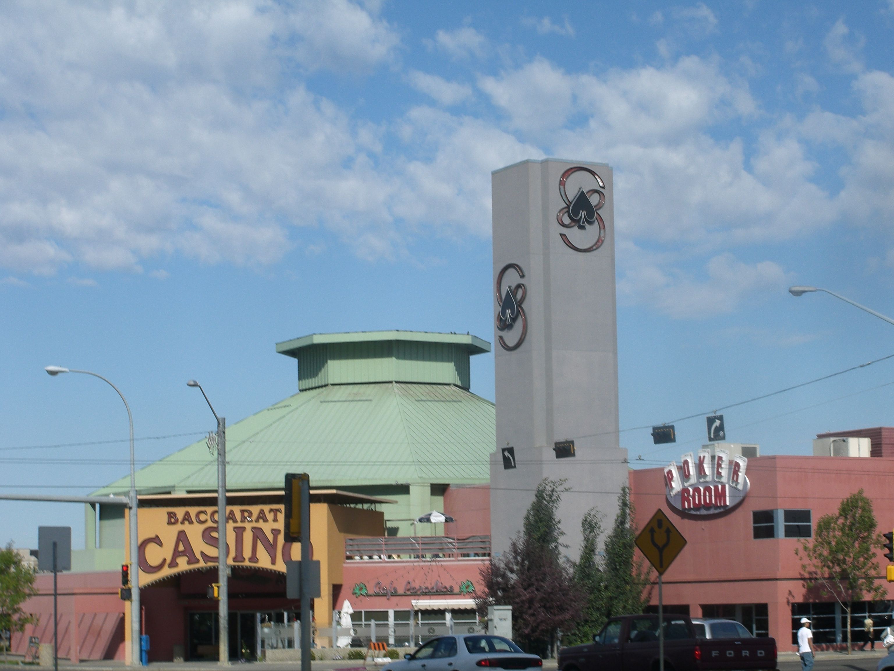 Edmonton Alberta Canada, downtown casino bacarat.